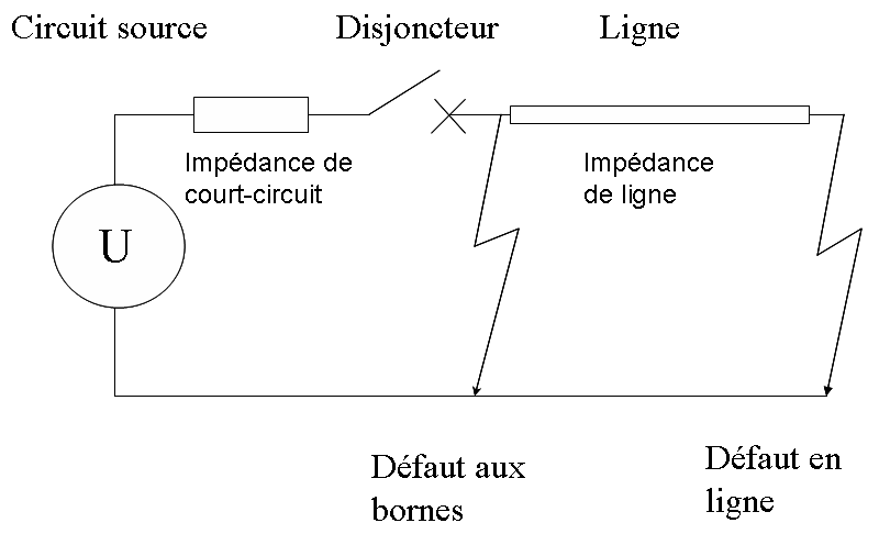 Short-circuit cases in high-voltage netwroks. I made this image previously in JPEG.